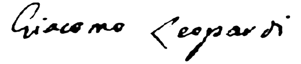 Giacomo Leopardi's signature